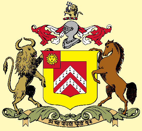 Banswara State Coat of Arms This work is in the public domain in India because its term of copyright has expired. The Indian Copyright Act applies in India, to works first published in India. According to The Indian Copyright Act, 1957 (Chapter V Section 25), Anonymous works, photographs, cinematographic works, sound recordings, government works, and works of corporate authorship or of international organizations enter the public domain 60 years after the date on which they were first published, counted from the beginning of the following calendar year (ie. as of 2016, works published prior to 1 January 1956 are considered public domain). Posthumous works (other than those above) enter the public domain after 60 years from publication date. Any other kind of work enters the public domain 60 years after the author's death. Text of laws, judicial opinions, and other government reports are free from copyright. Photographs created before 1958 are in the public domain 50 years after creation, as per the Copyright Act 1911. This file may not be in the public domain outside India. The creator and year of publication are essential information and must be provided. See Wikipedia:Public domain and Wikipedia:Copyrights for more details. This image shows a flag, a coat of arms, a seal or some other official insignia. The use of such symbols is restricted in many countries. These restrictions are independent of the copyright status.